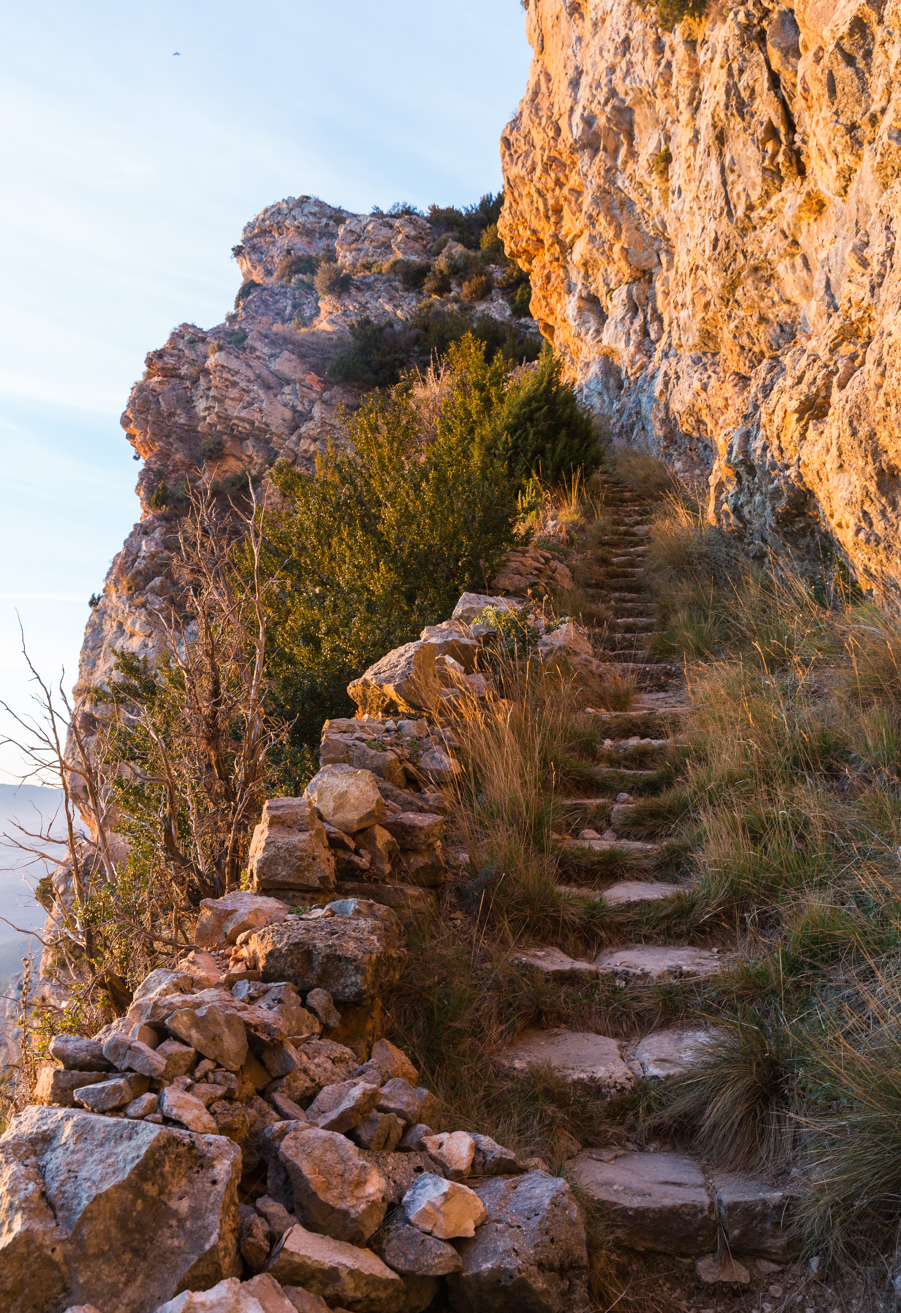 Road to the hermitage of the Virgin of the Rock, LIC Sierras de Santo Domingo y Cabellera, Aniés, Huesca, Spain.